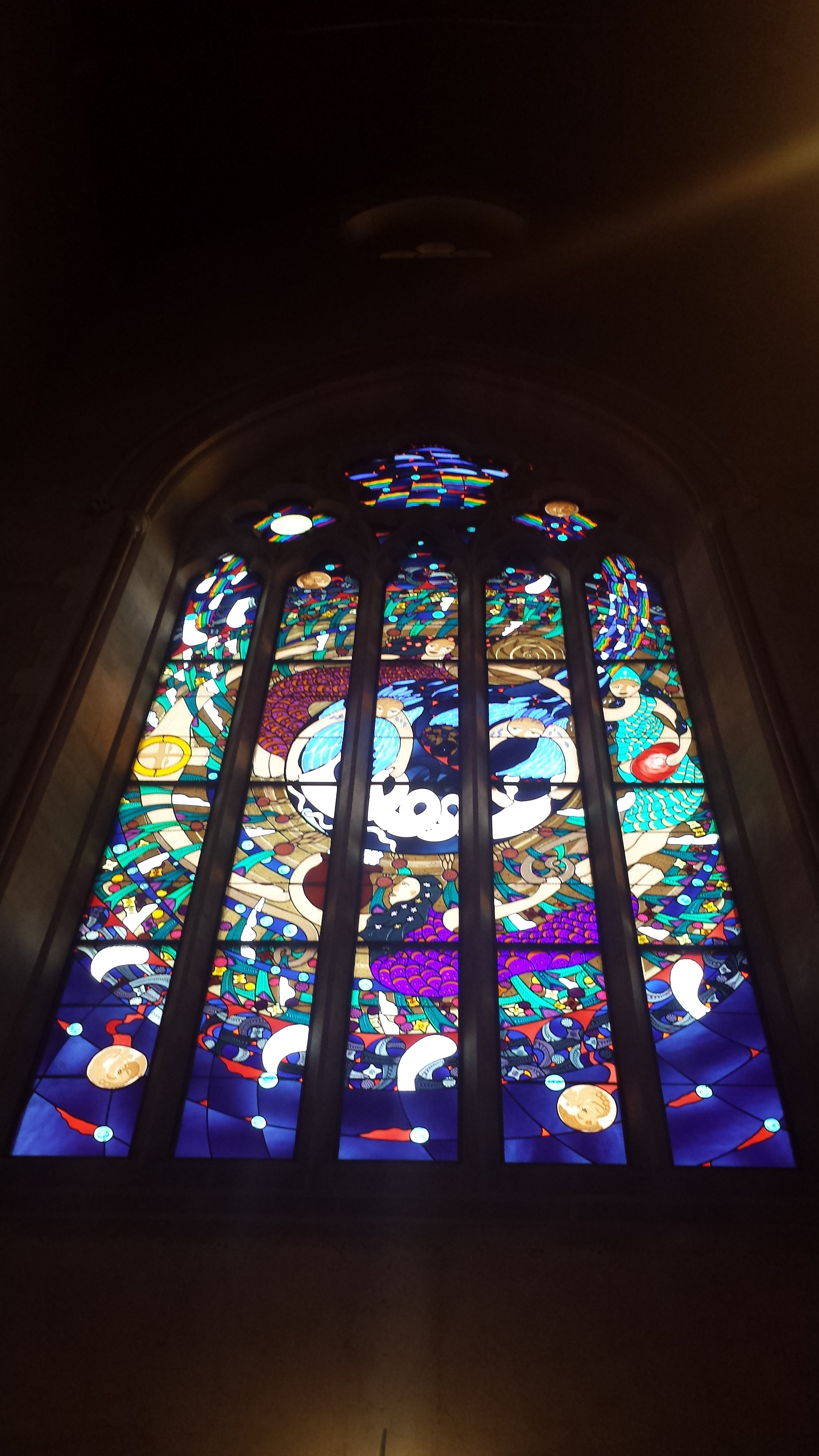 Magdalene Window, St Peter's Cathedral, Adelaide